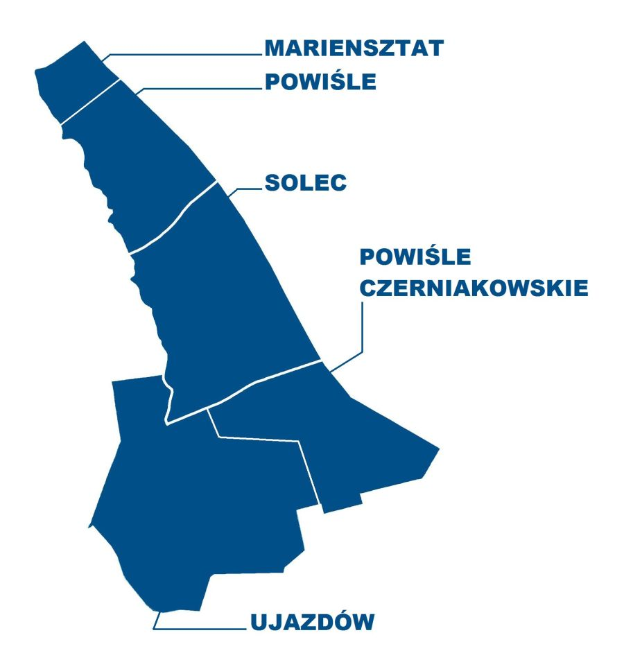 Powisle - part of warsaw